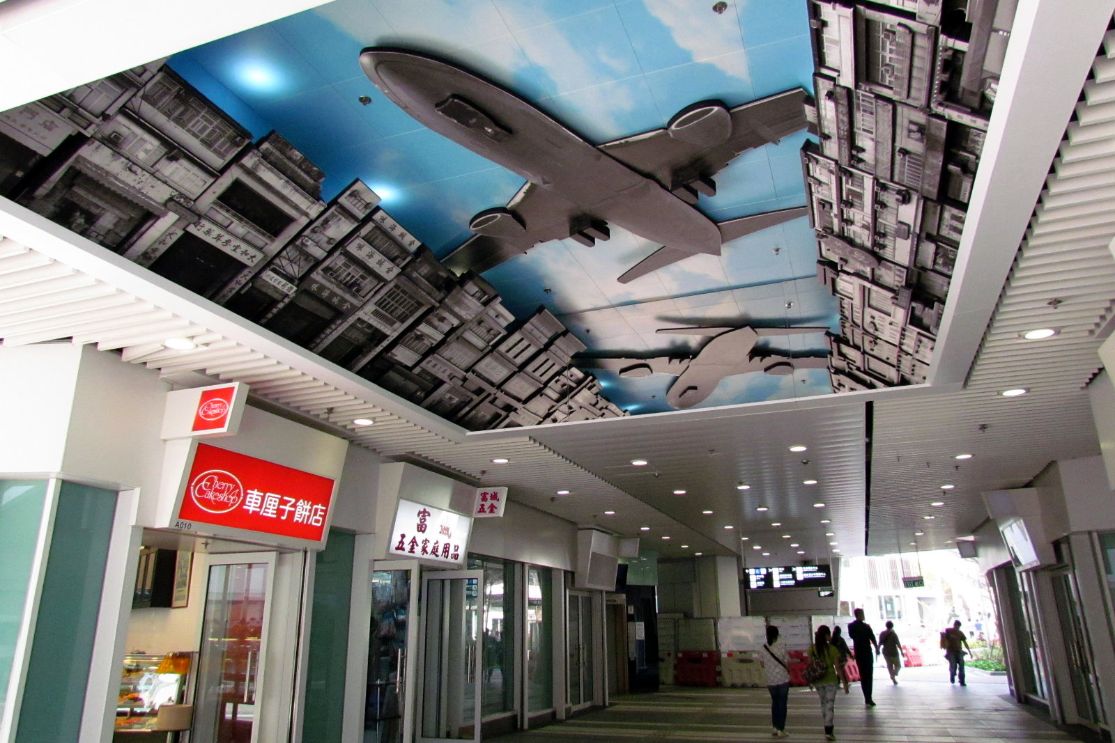 Ching Long Shopping Centre Zone A, Hong Kong